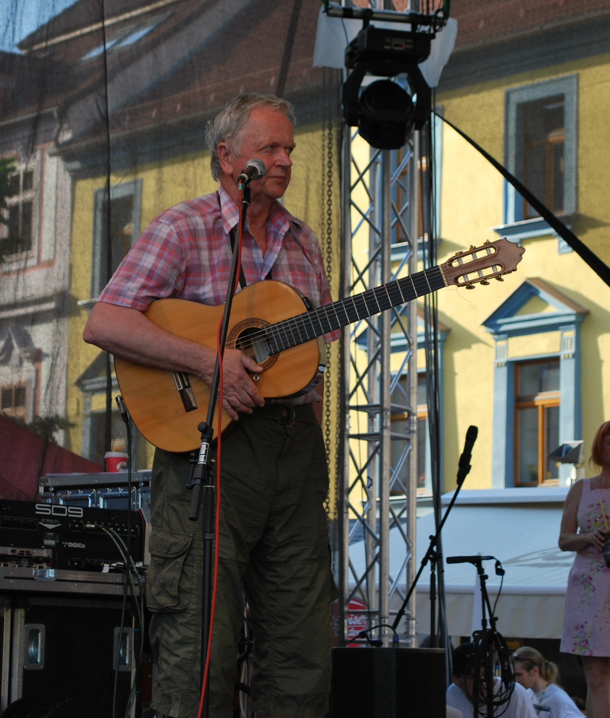 Jiří Tichota, member of czech music grupe Spiritual kvintet during concert in Písek town, Czech Republic.